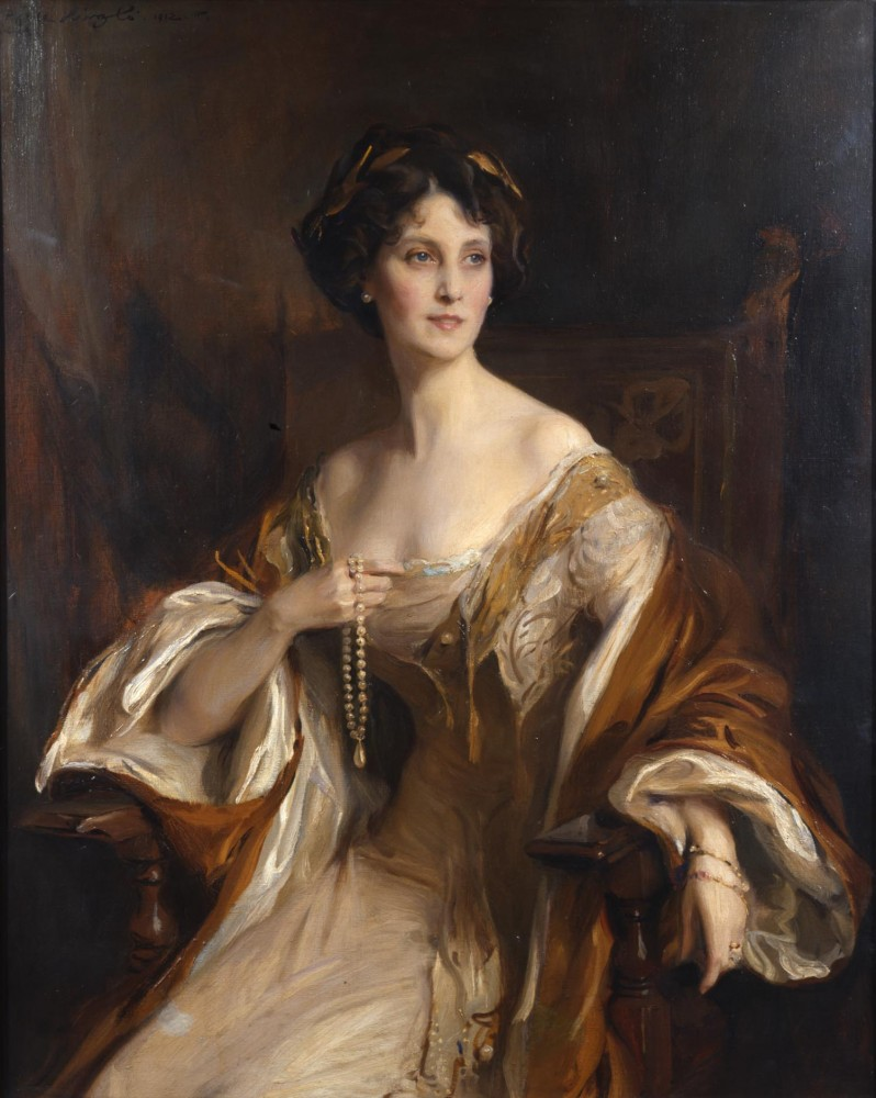 Portrait of Winifred Cavendish-Bentinck, Duchess of Portland (1863-1954)